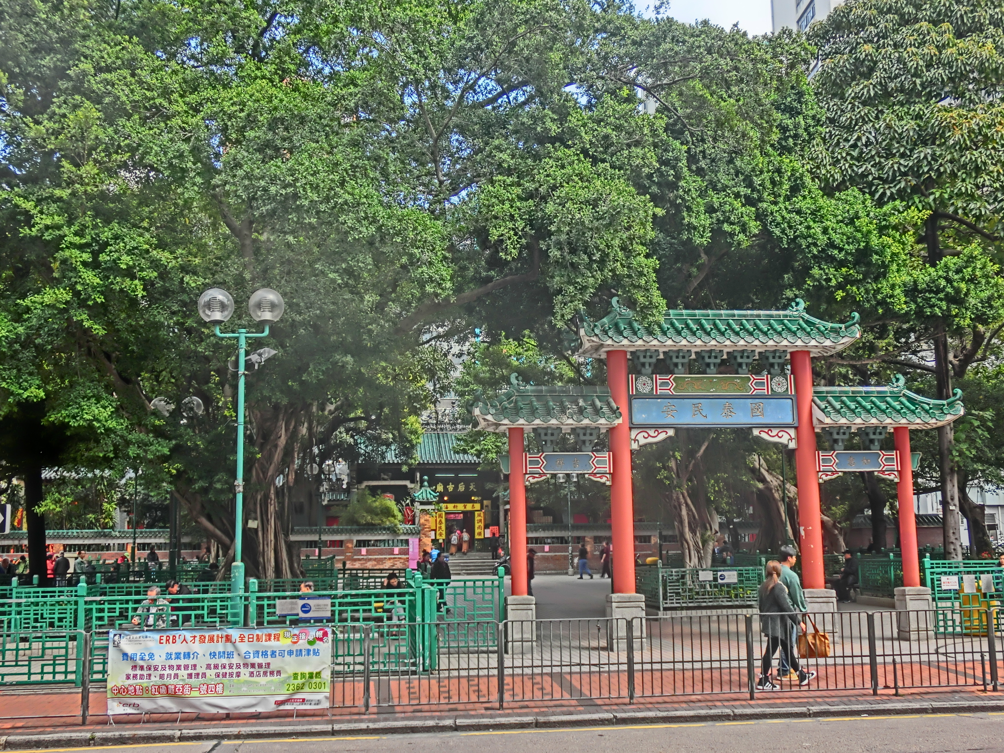 上海街, Shanghai Street, Yau Ma Tei, Hong Kong